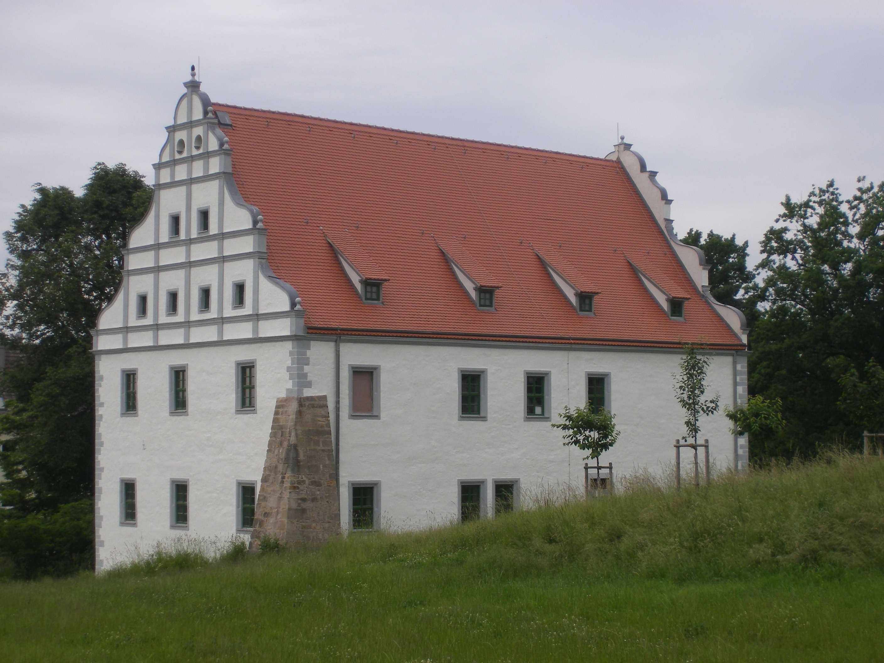 The Manor house in Oberzetzscha, a district of Altenburg/Thuringia in Germany.